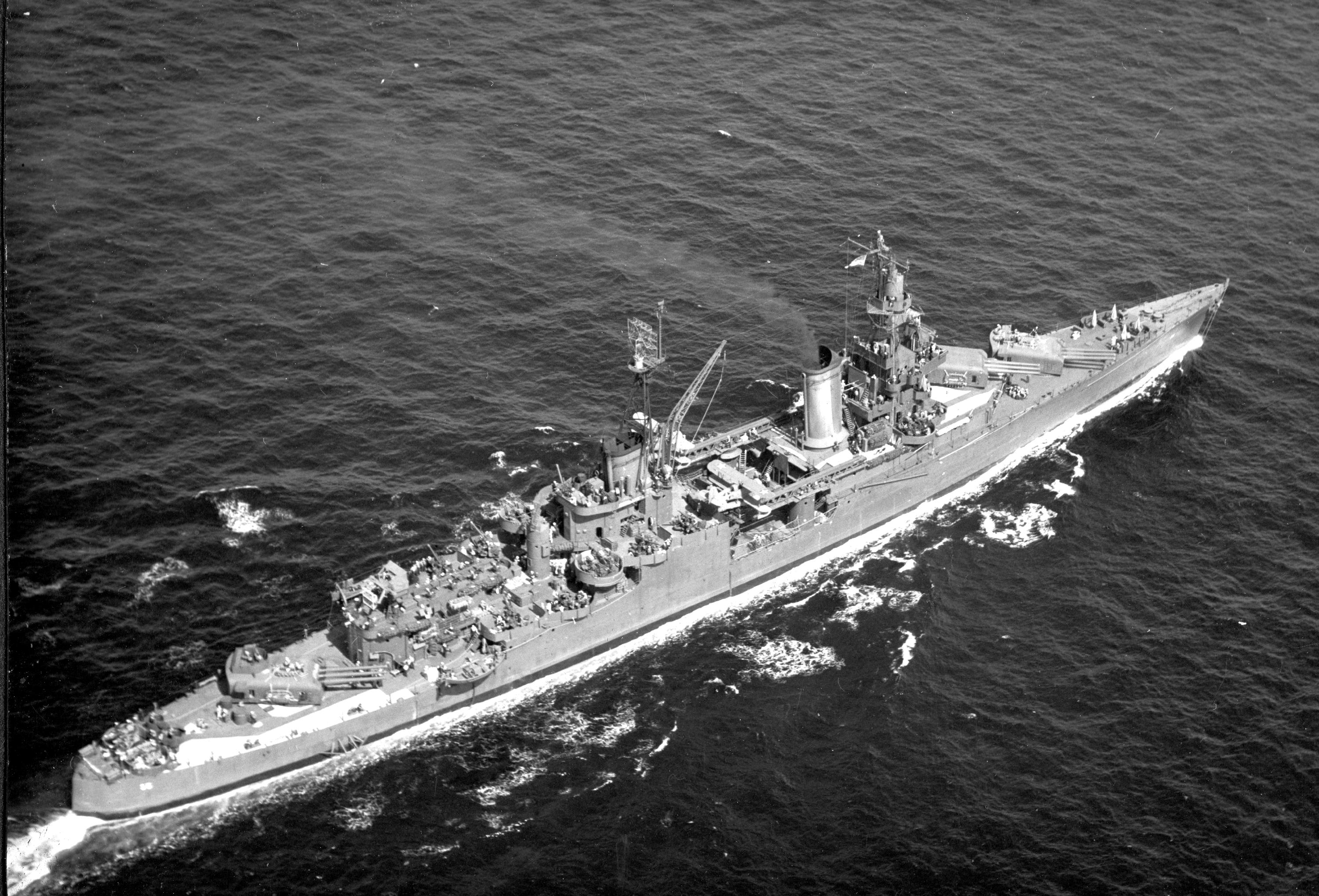 The U.S. Navy heavy cruiser USS Indianapolis (CA-35) underway at sea between May 1943 and May 1944. She is painted in Camouflage Measure 21.